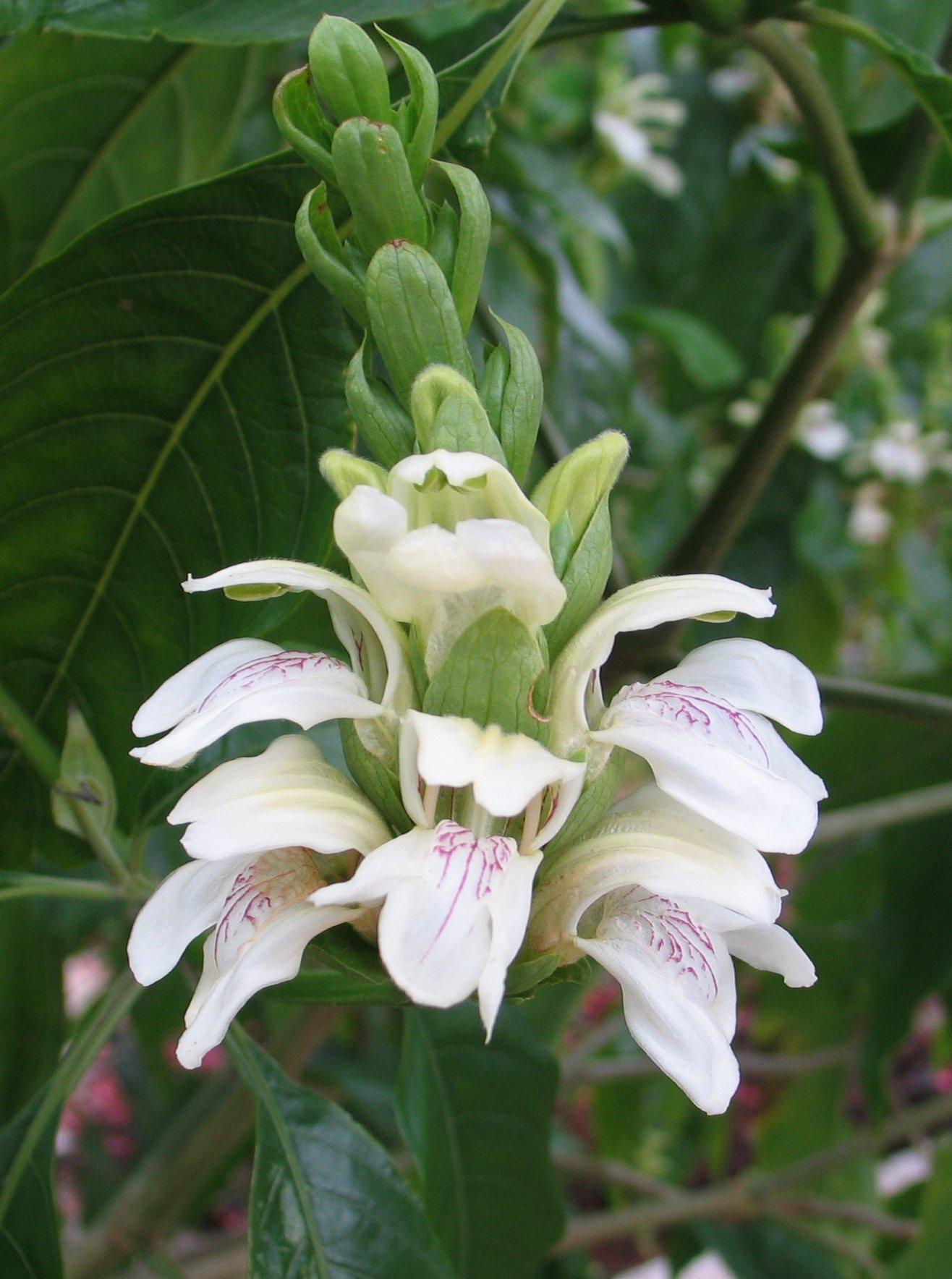 Justicia adhatoda, flowers, family Acanthaceae